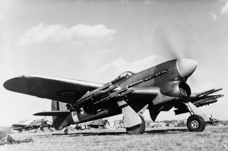 A Royal Air Force Hawker Typhoon Mark IB (MN234 'SF-T') of No. 137 Squadron RAF with a full load of 60-lb. rocket-projectiles beneath the wings, running up on an engine test at B78/Eindhoven, Holland.